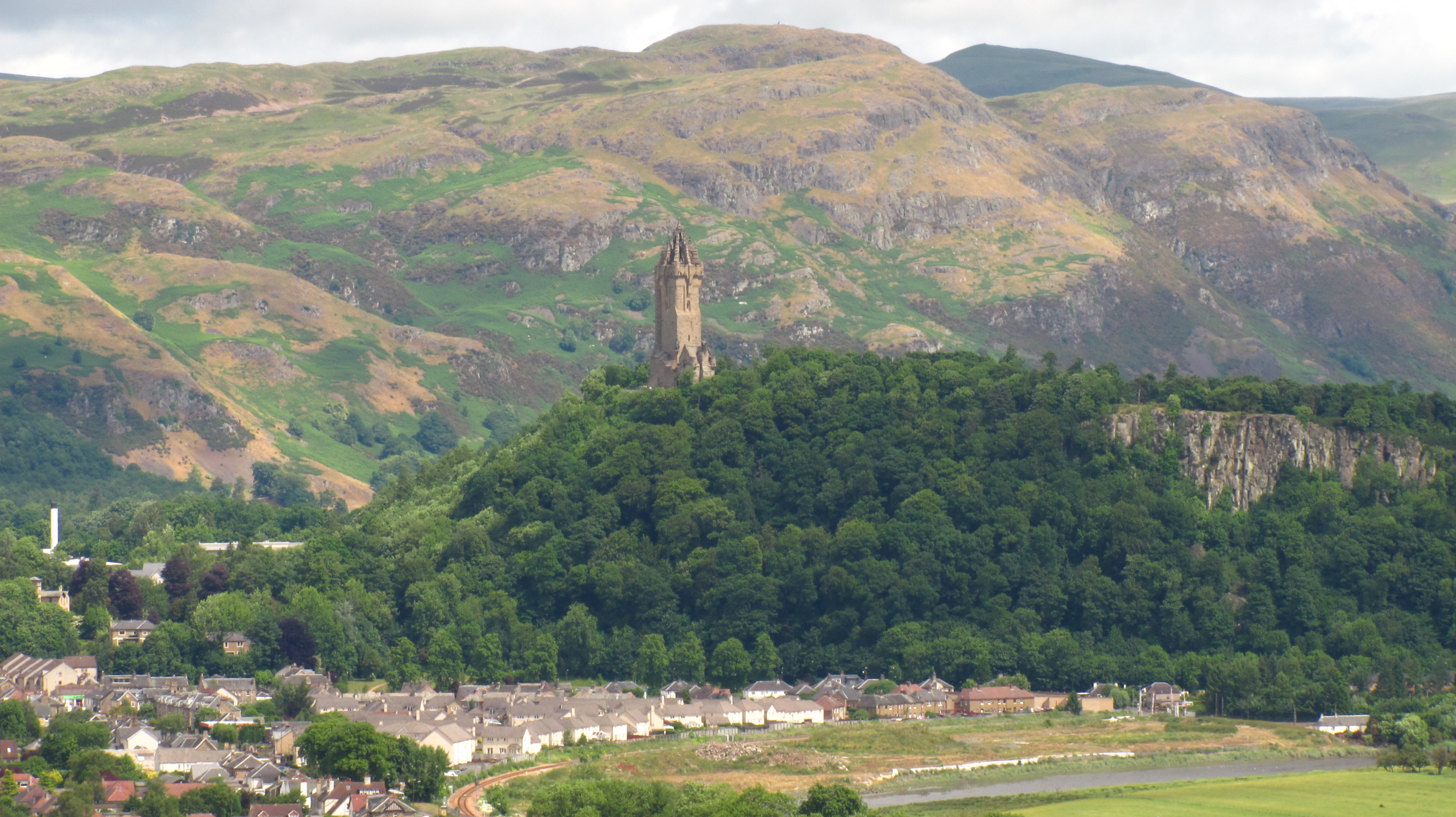 Abbey Craig near Stirling, Scotland, with Wallace Monument on top.